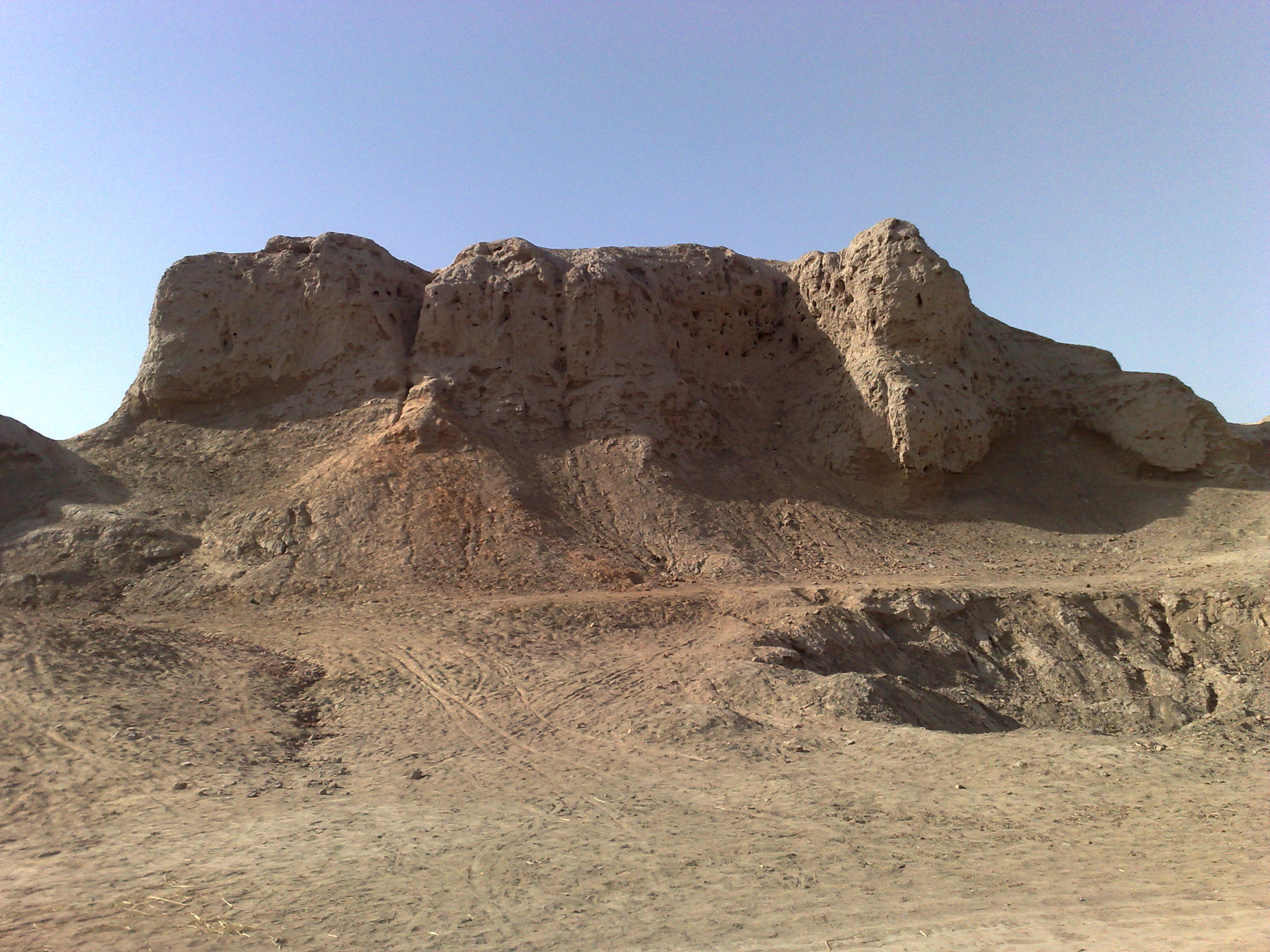 Ruins of Old Tulamba, south of Tulamba, Mian Channu Tehsil, Punjab, Pakistan